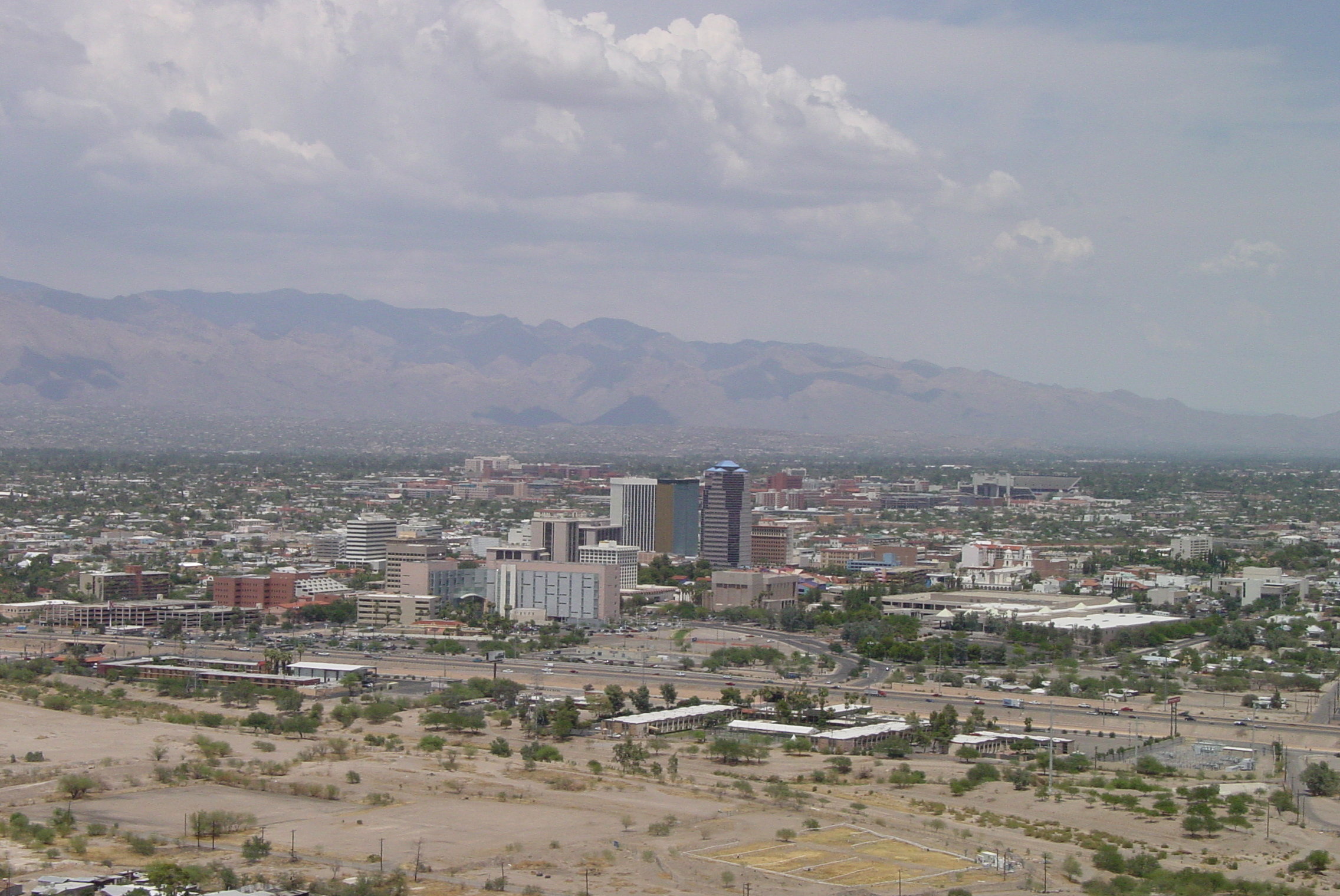 An image of the Tucson Valley as seen from "A Mountain"